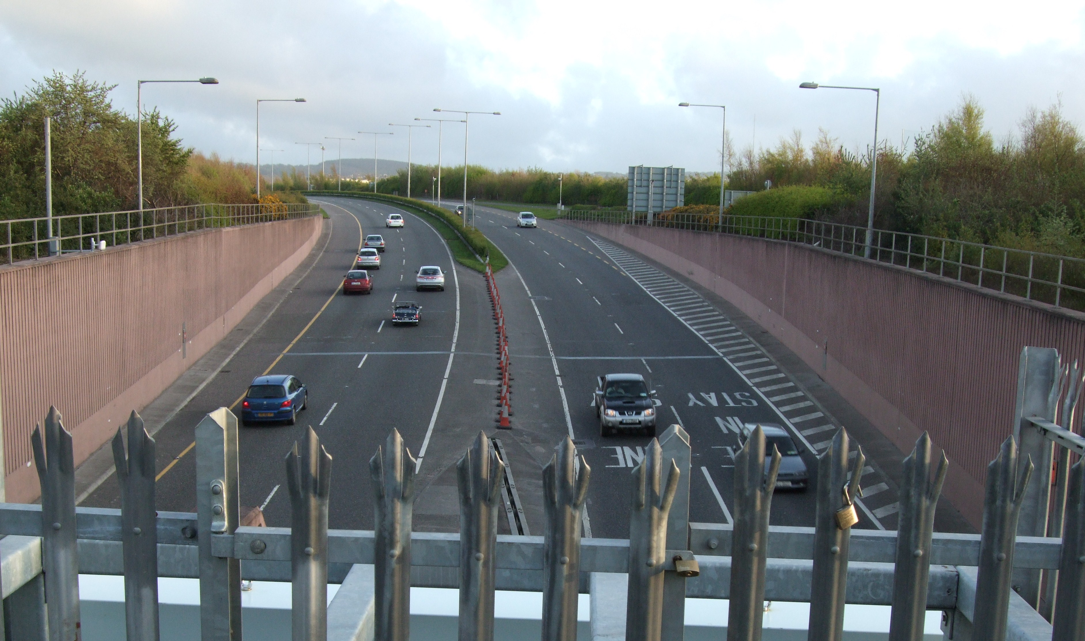 The N25 at the southern entry/exit point of the The Jack Lynch Tunnel